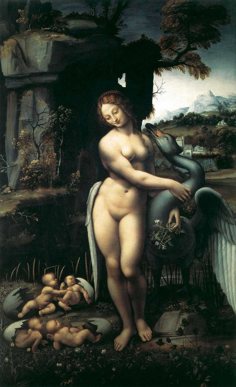 Leda and the Swan by Francesco Melzi after a lost painting by Leonardo da Vinci. Galleria degli Uffizi, Florence.